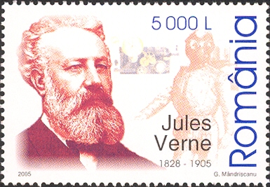 Stamps of Romania, 2005